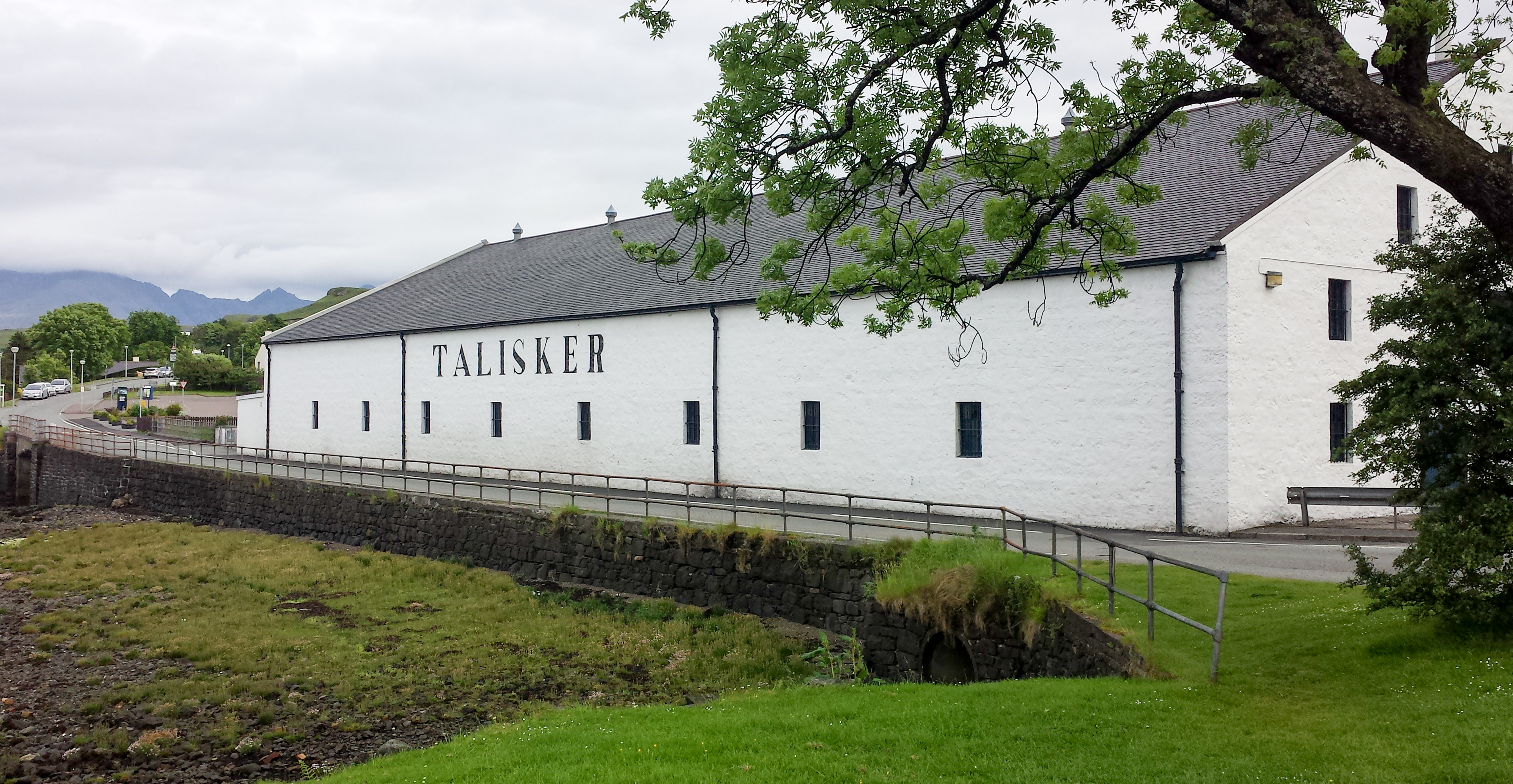 Talisker distillery, Carbost, Isle of Skye, Scotland. Producer of single malt Scotch whiskey.